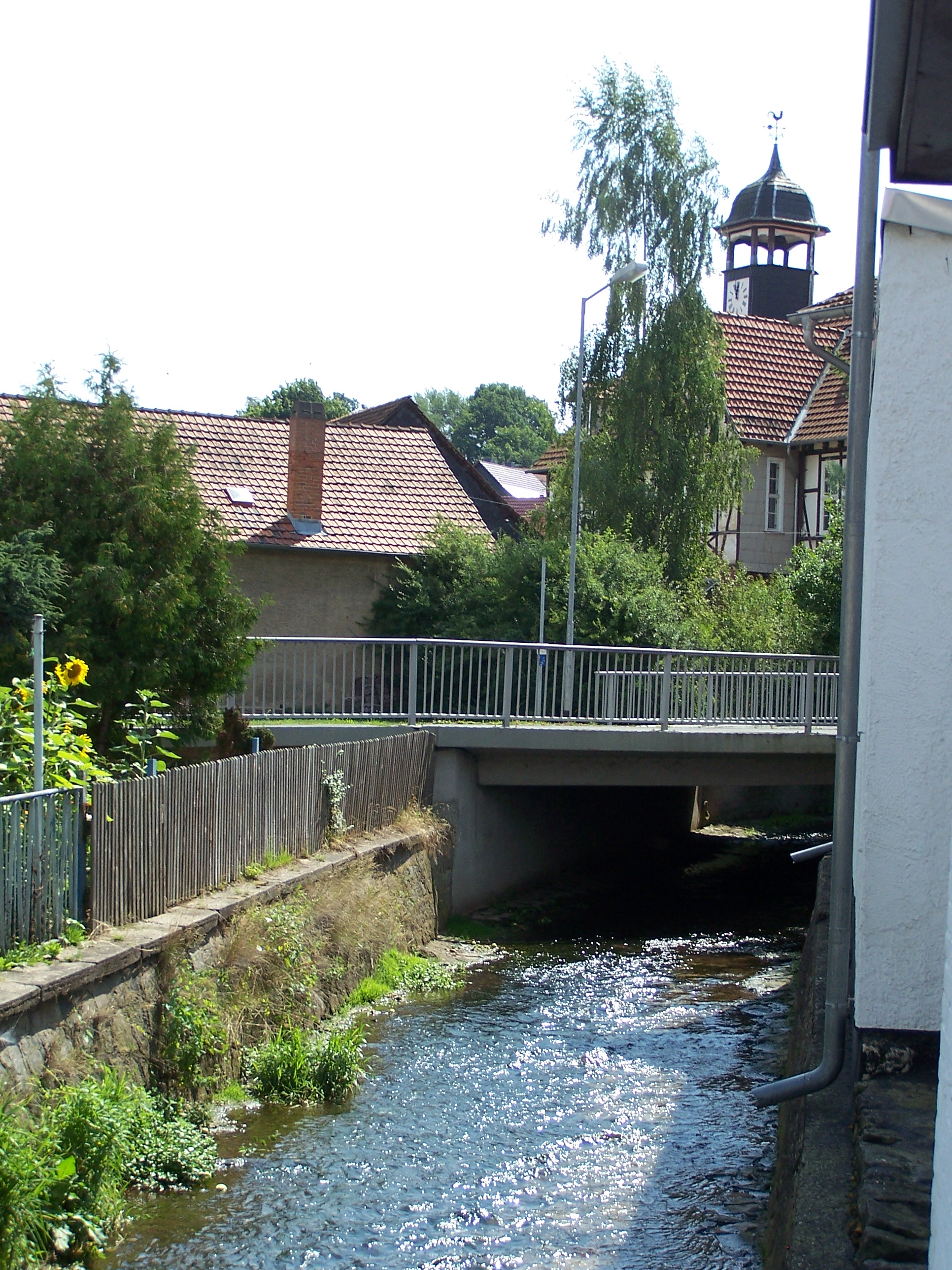 Bridges in Wutha-Farnroda